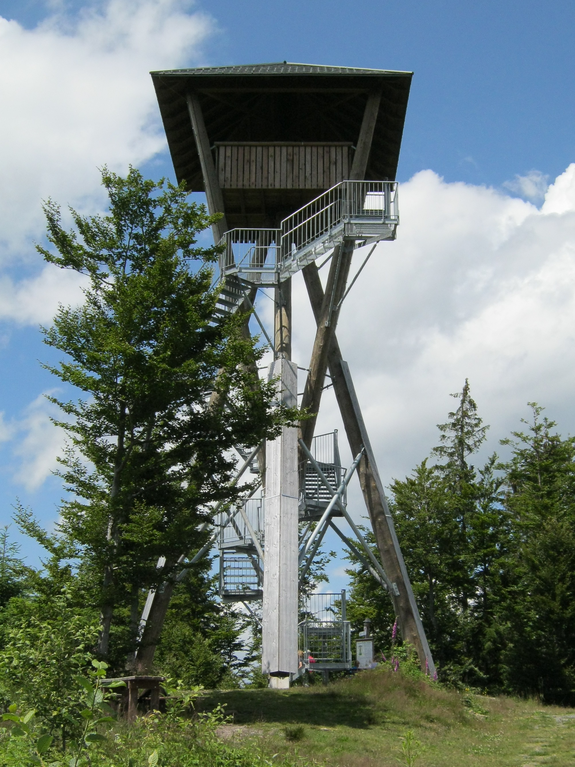 This is a look-out, a viewing platform on the mountain "Hasenhorn" in the Black Forest in Germany, Baden Württemberg. From the top you can see the mountains called "Feldberg", "Belchen", "Herzogenhorn" and the tavern "Gisibodenalm".